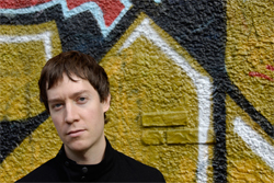 Promotional picture of Chris Child (Kodomo.)